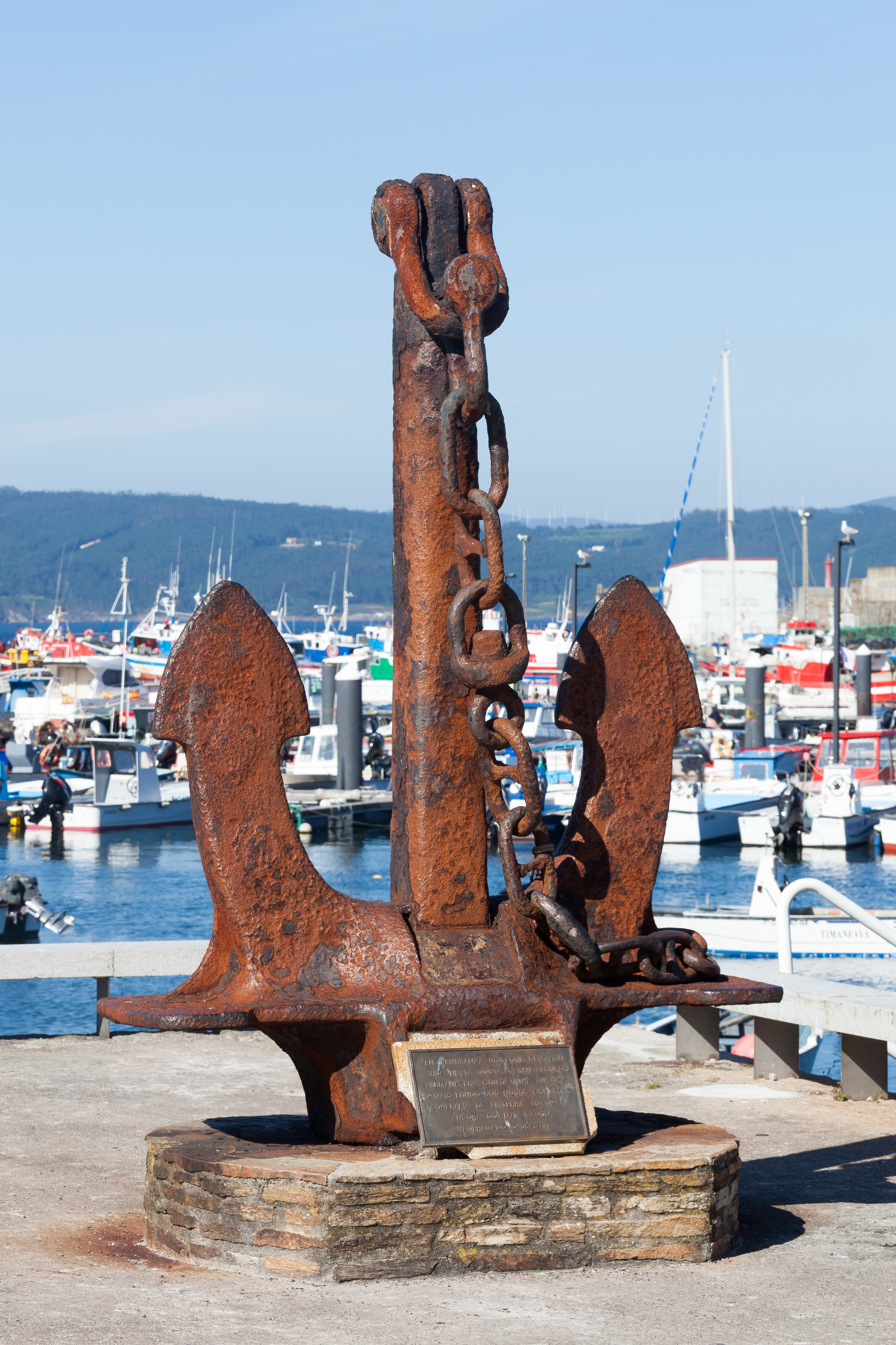 Cason Anchor, wrecked on 05-12-1987. Fisterra, Galicia (Spain).